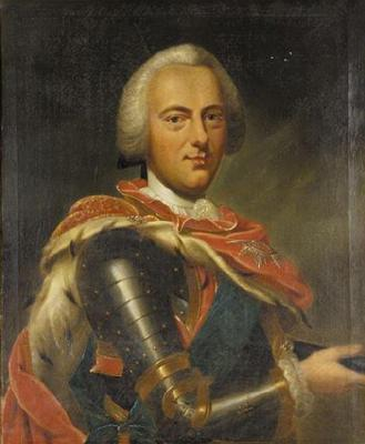 Portrait of Charles I, Duke of Brunswick-Wolfenbüttel (1713-1780)